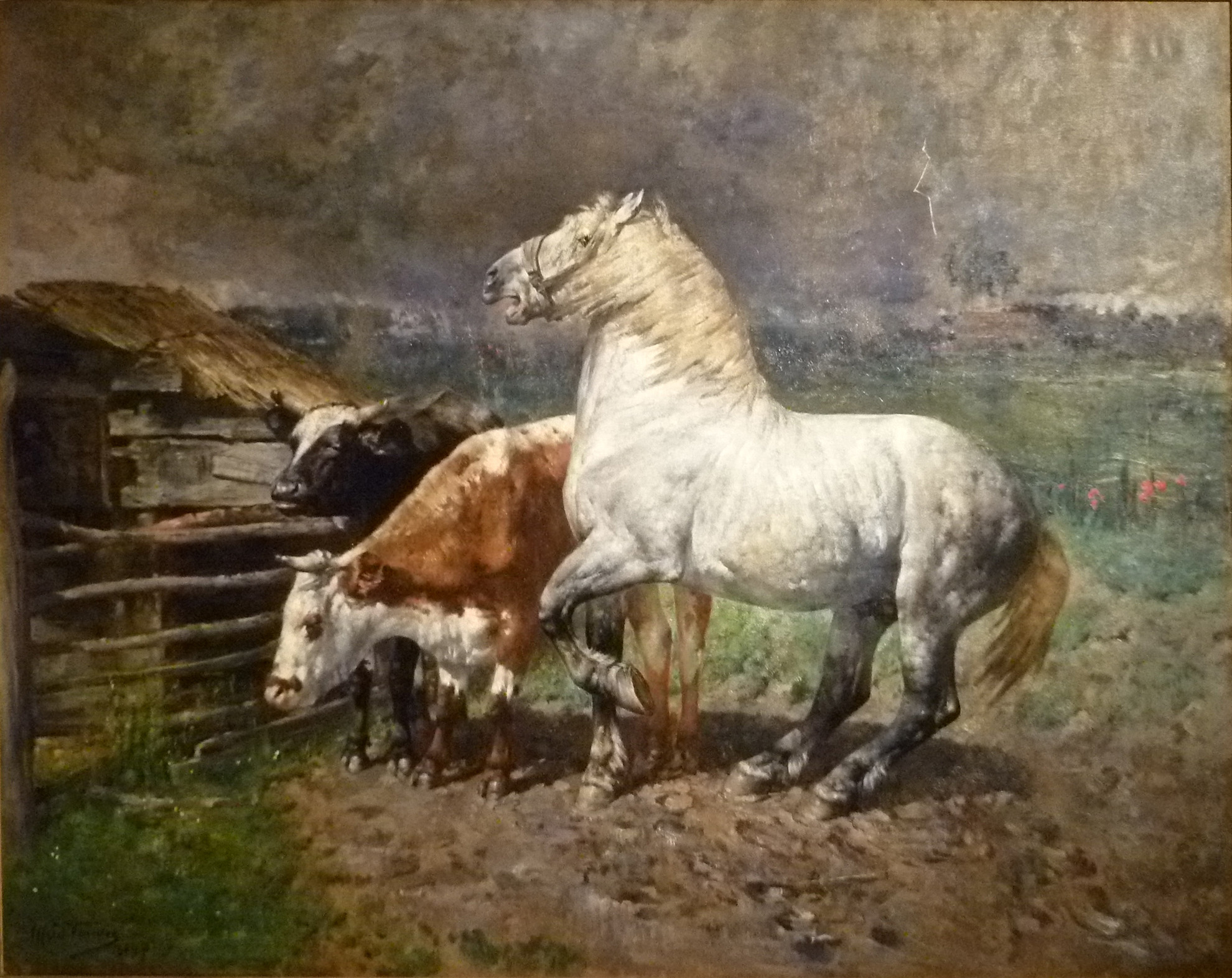 "Thunderstorm oil on canvas (110 x 140 cm) by the Belgian painter Alfred Verwee (1838-1895); private collection